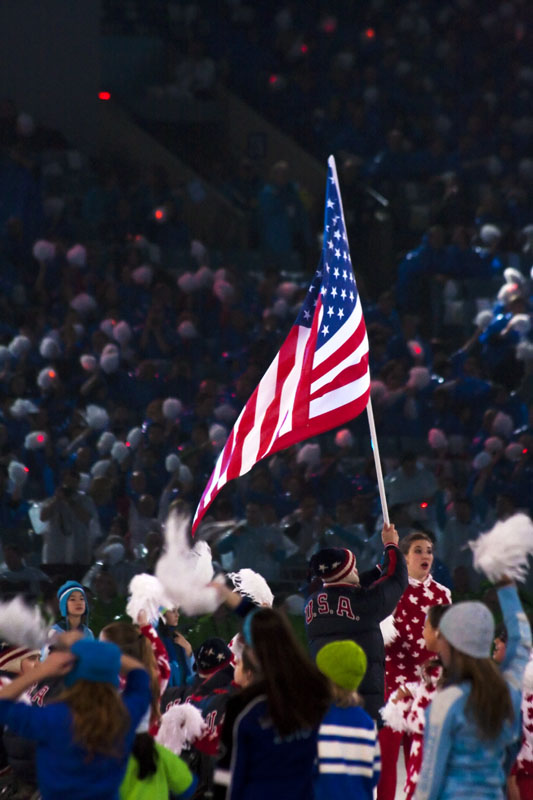 Heath Calhoun carries the flag of the United States as the U.S. delegation enters the stadium at the Opening Ceremony of the 2010 Winter Paralympics in Vancouver, Canada.